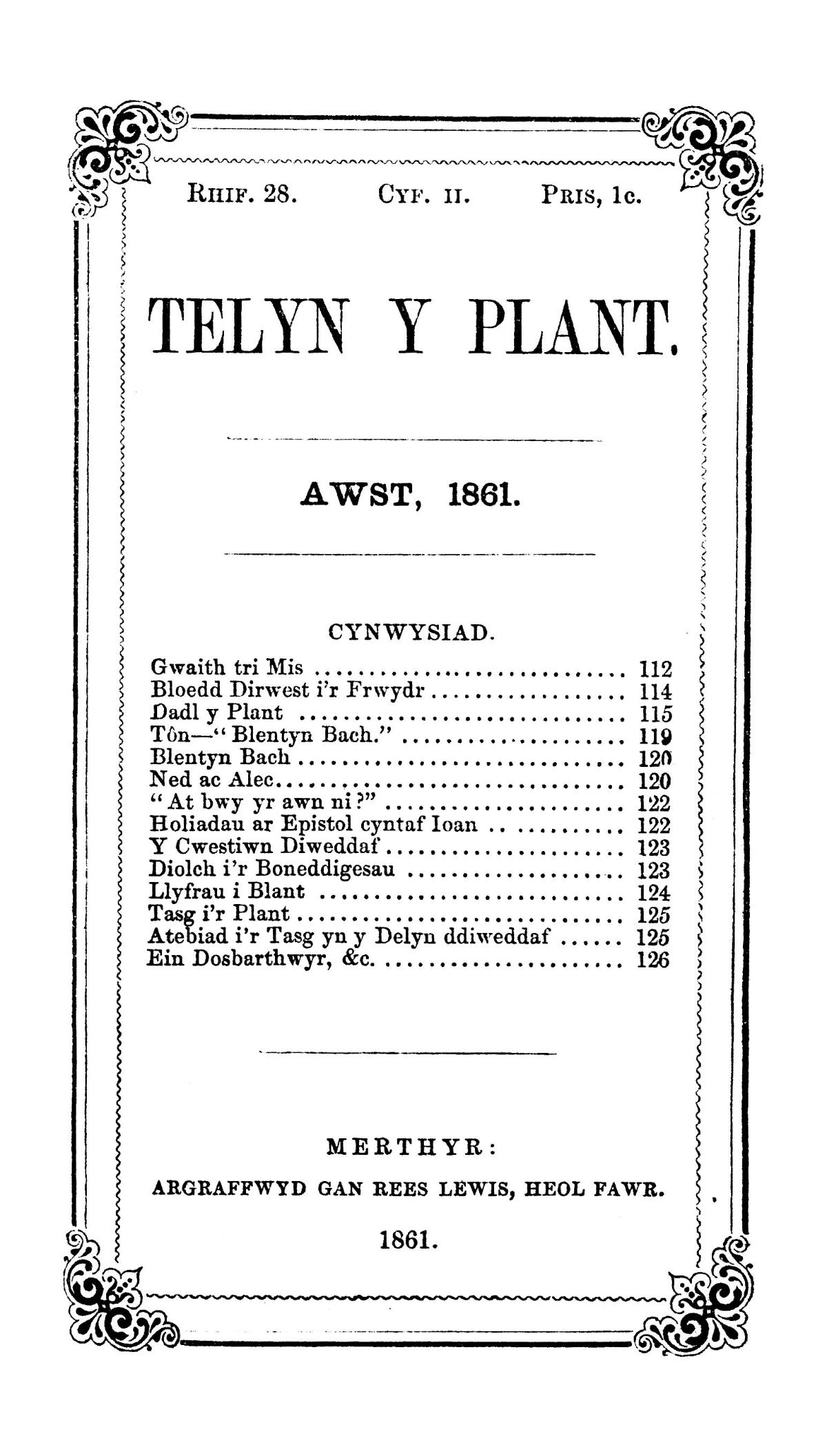 A monthly Welsh language temperance periodical serving the children and young people of the Band of Hope. The periodical's main contents were articles on temperance, religion and the Band of Hope, alongside poetry and music. The periodical was edited by the minister and author, Thomas Levi (1825-1916) and the musician, John Roberts (Ieuan Gwyllt, 1822-1877).